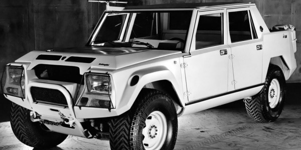 1982 Lamborghini LMA002 prototipo